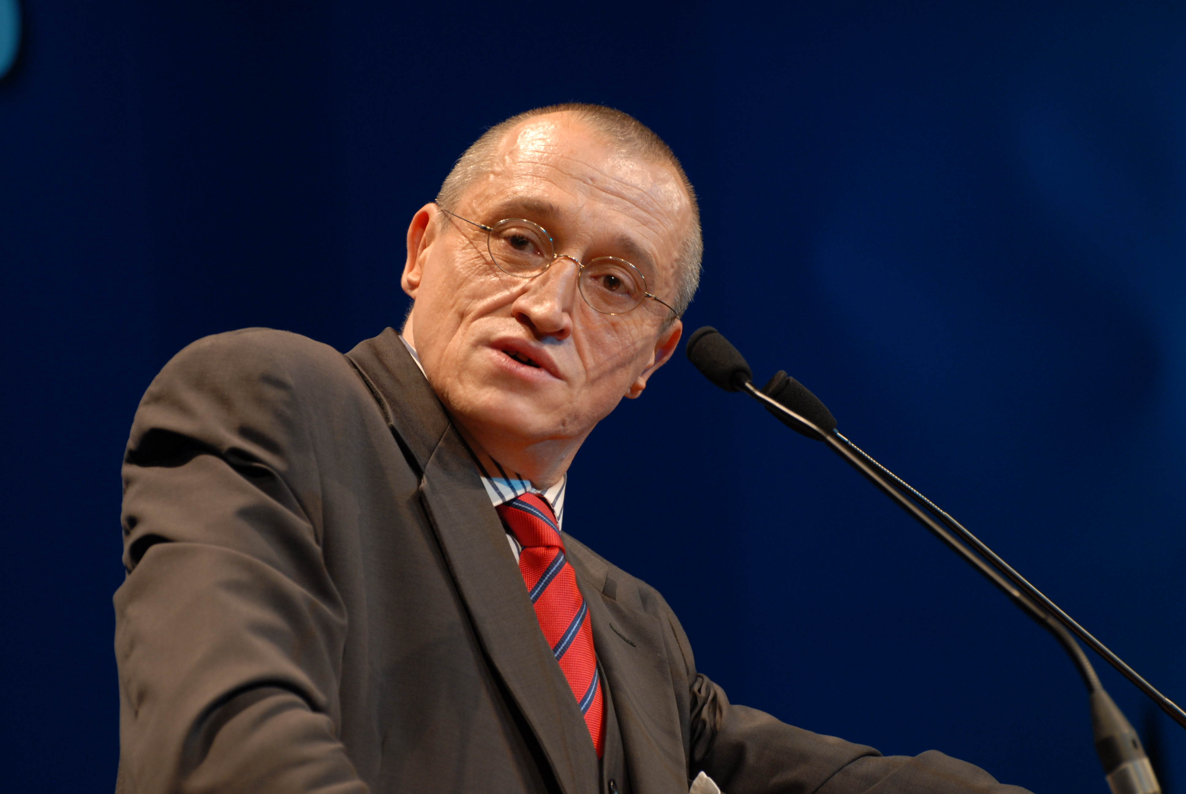 Paul-Marie Coûteaux during Philippe de Villiers's meeting in Toulouse on April, 16th 2007 for the 2007 presidential election campaign.